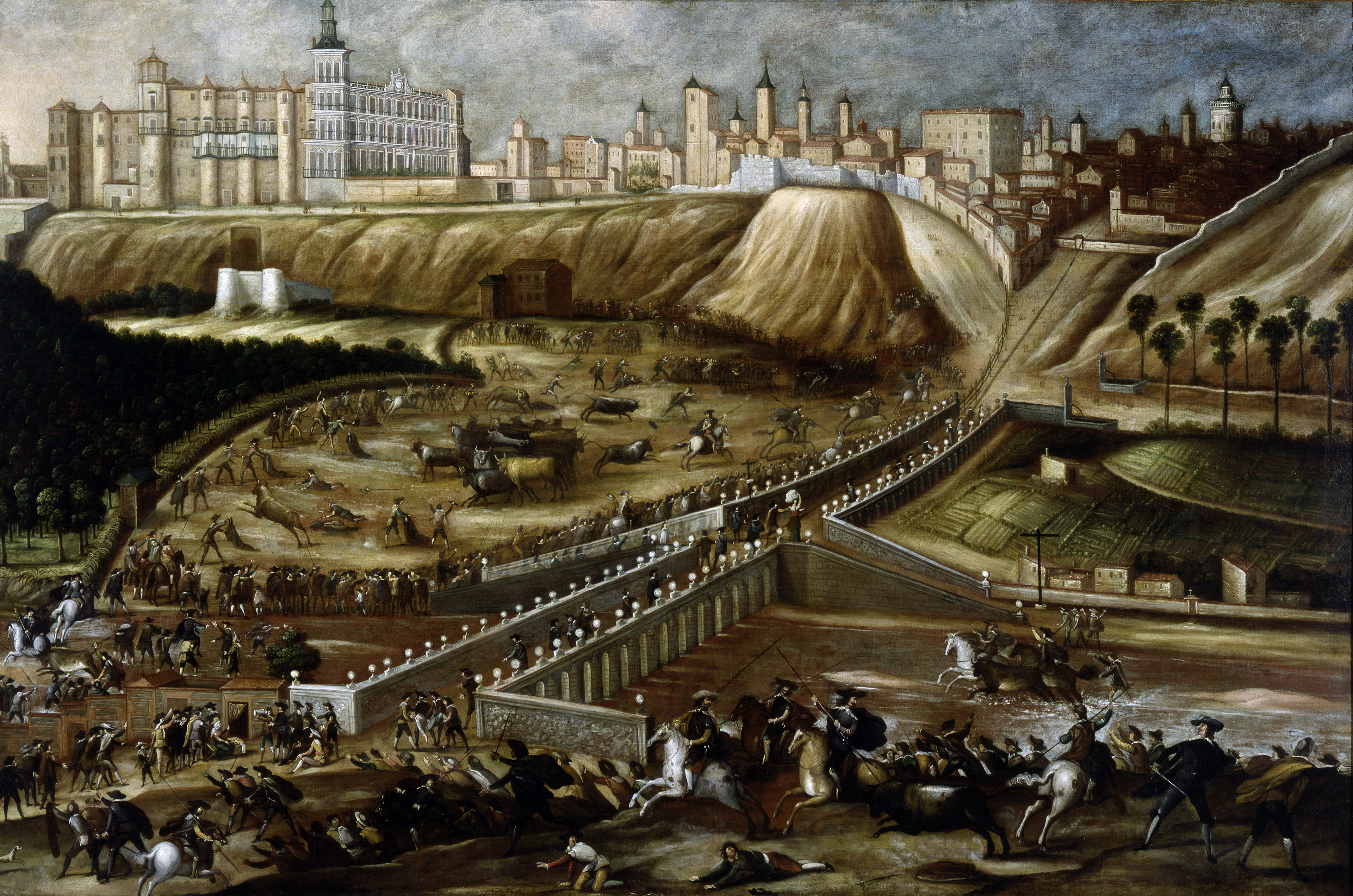 View of the Alcázar Real in Madrid and the Segovia old bridge surroundings